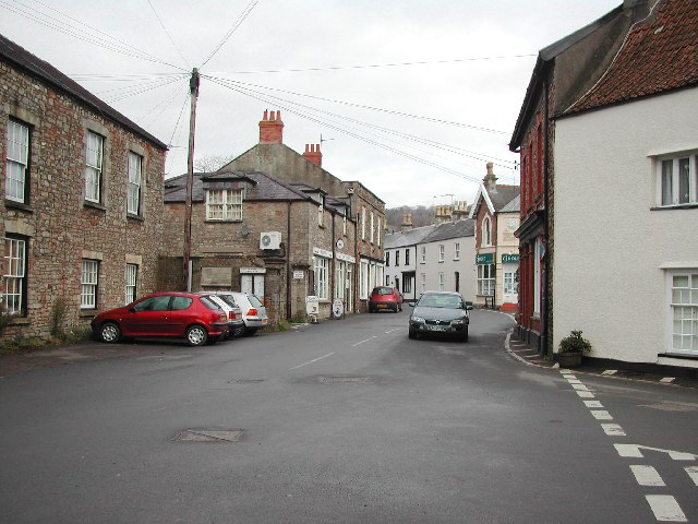 Wrington High Street looking north